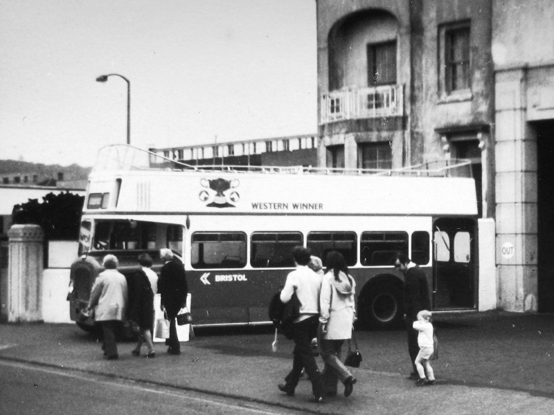 Bristol Omnibus 8581 (627 HFM) outside the bus station in Weston-super-Mare, Somerset, England. The bus has been built for Crosville open top services in 1959. During its most of its time with Bristol Omnibus it was painted red and white to represent the former Cheltenham Tramways which were replaced by Bristol buses. It was named Western Winner and carried a picture of the Cheltenham Gold Cup.